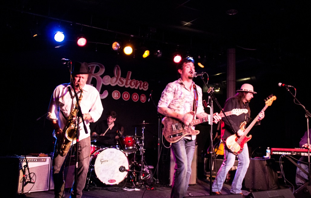 Mike Zito and the Wheel at the Redstone Room, Davenport, IA 5/14/15